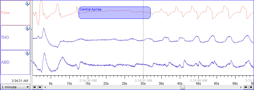 Screenshot of a PSG system showing a central apnea. Flow and effort signals go flat for a period of time, indicating a central apnea.